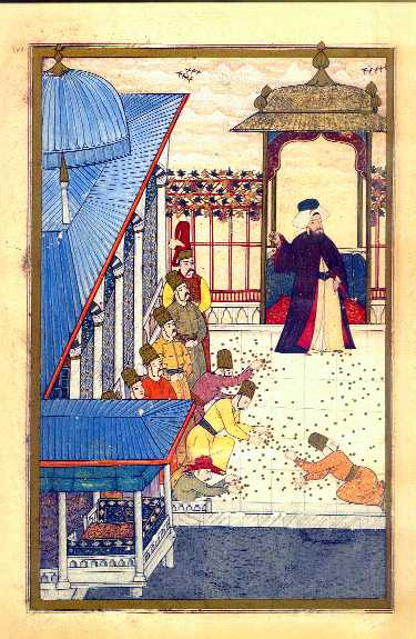 The Surname-I Hümayun (Imperial Festival Book) were albums that commemorated celebrations in the Ottoman Empire in pictorial and textual detail. As depicted here, during the various festivals, the Ottoman Sultan would throw gold coins into the crowd as a sign of the great wealth of the imperial household.